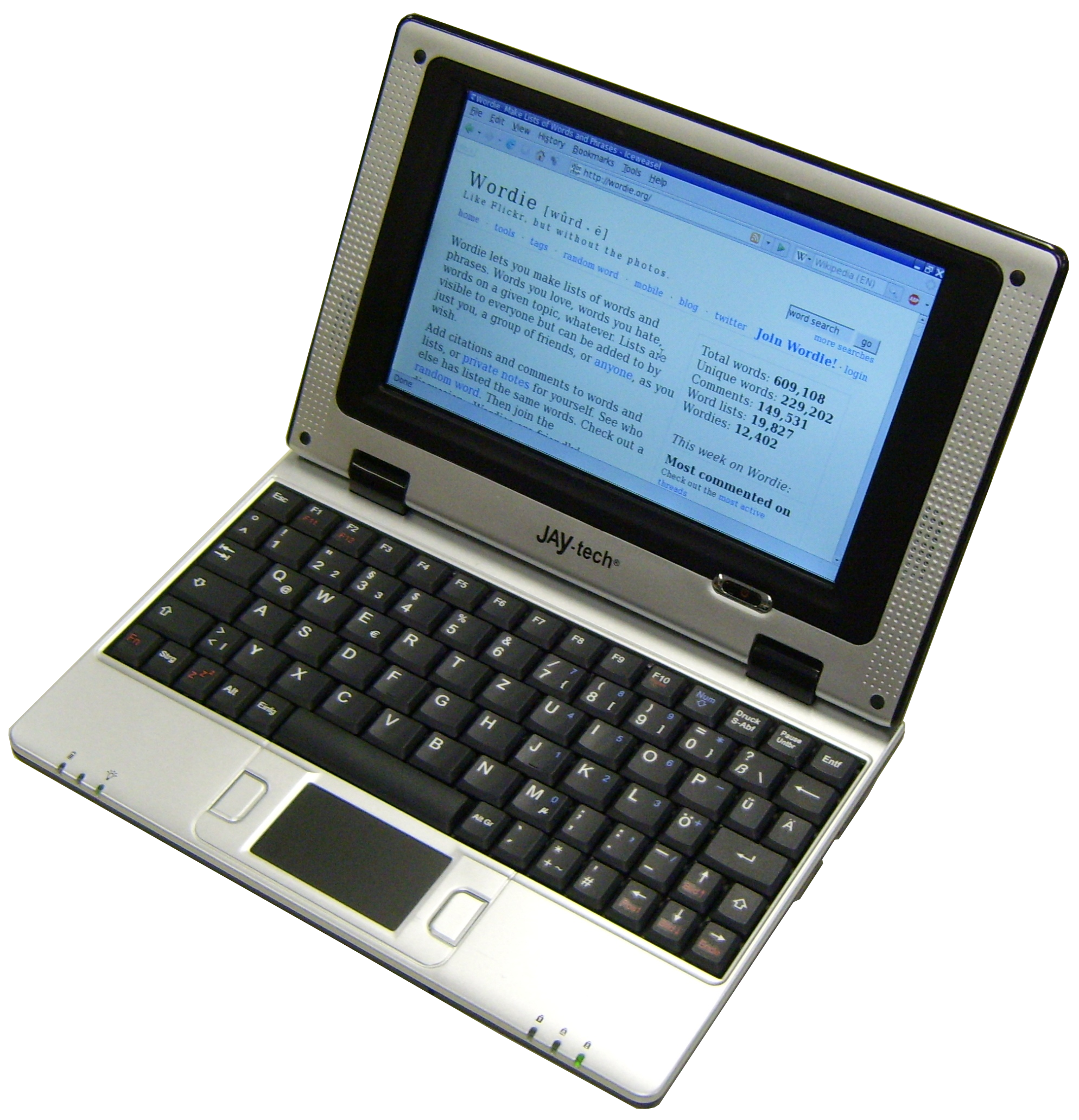 Image of the Skytone Alpha 400 MIPSel Netbook (German Layout, rebraned by JAYtech as Jee-PC 400S) Jz4730, 32bit 336MHz, 128MB SD-Ram, 1GB NAND Flash Running iceweasel on 3MX